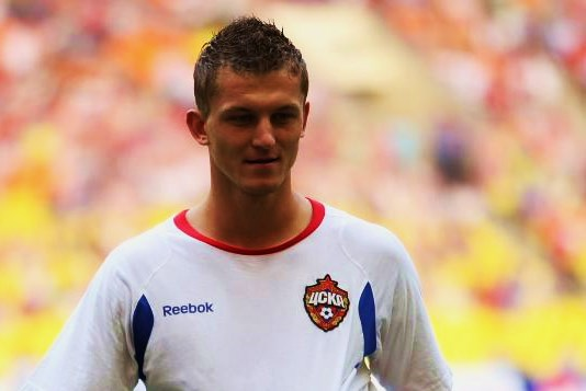 Tomáš Necid